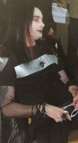 Dani Filth, vocalist of Cradle of Filth, interviewed at Finnish TV program Jyrki on 6 November 2000.